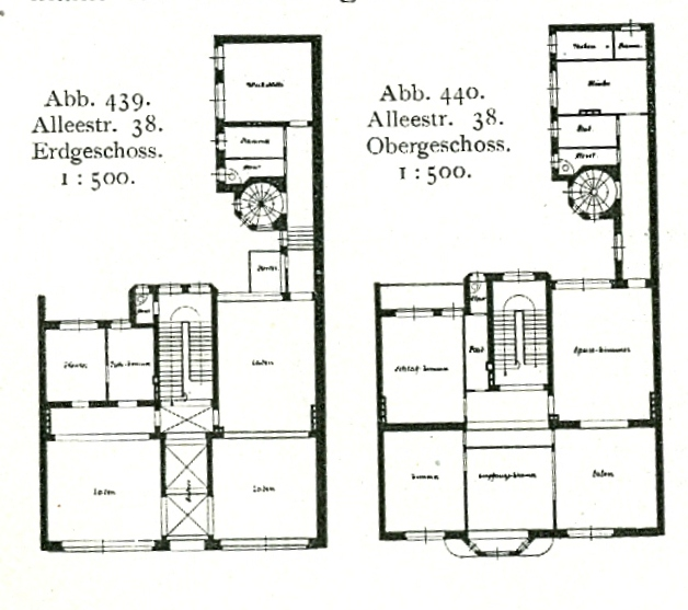 g